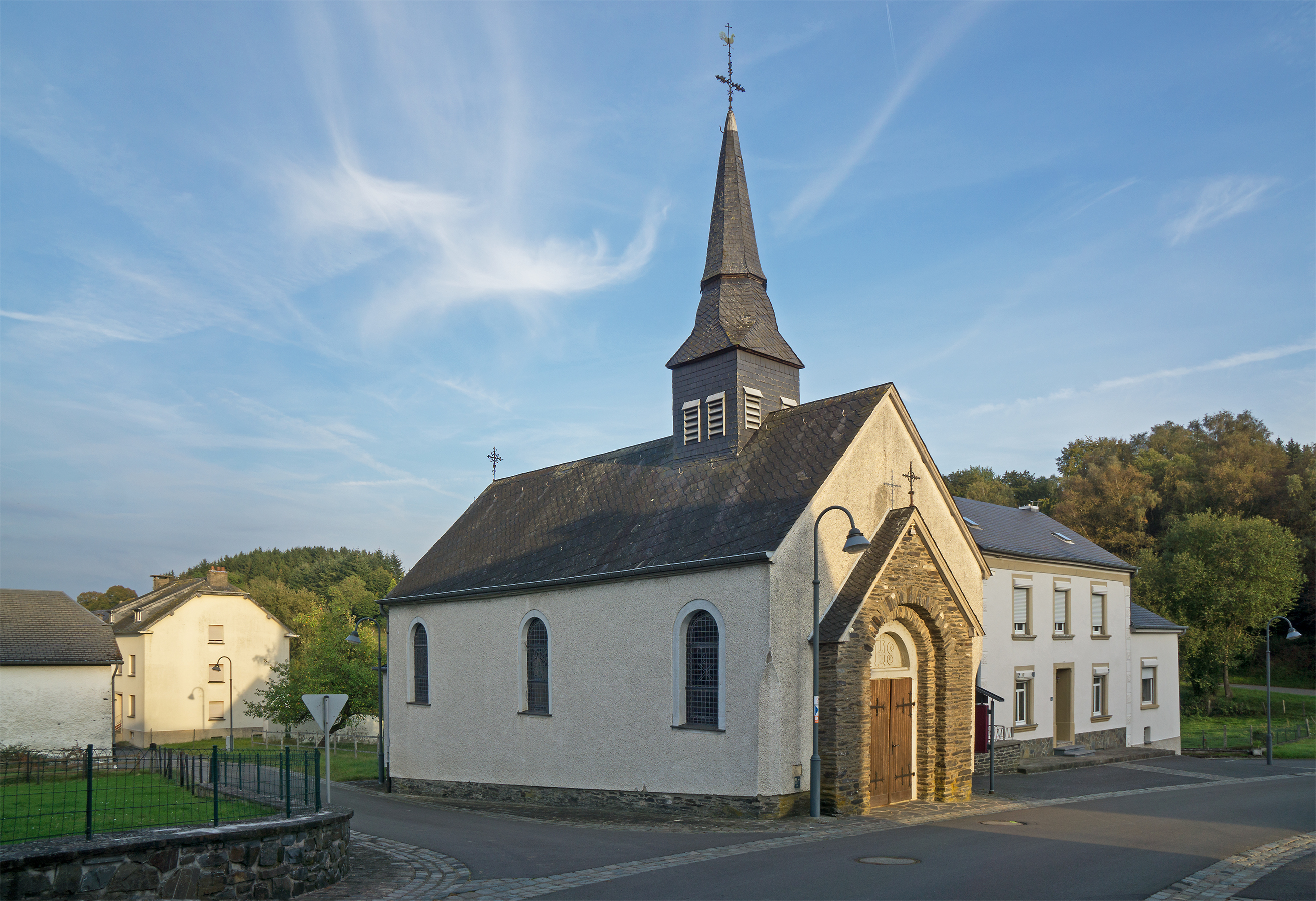 Chapel of Biwisch